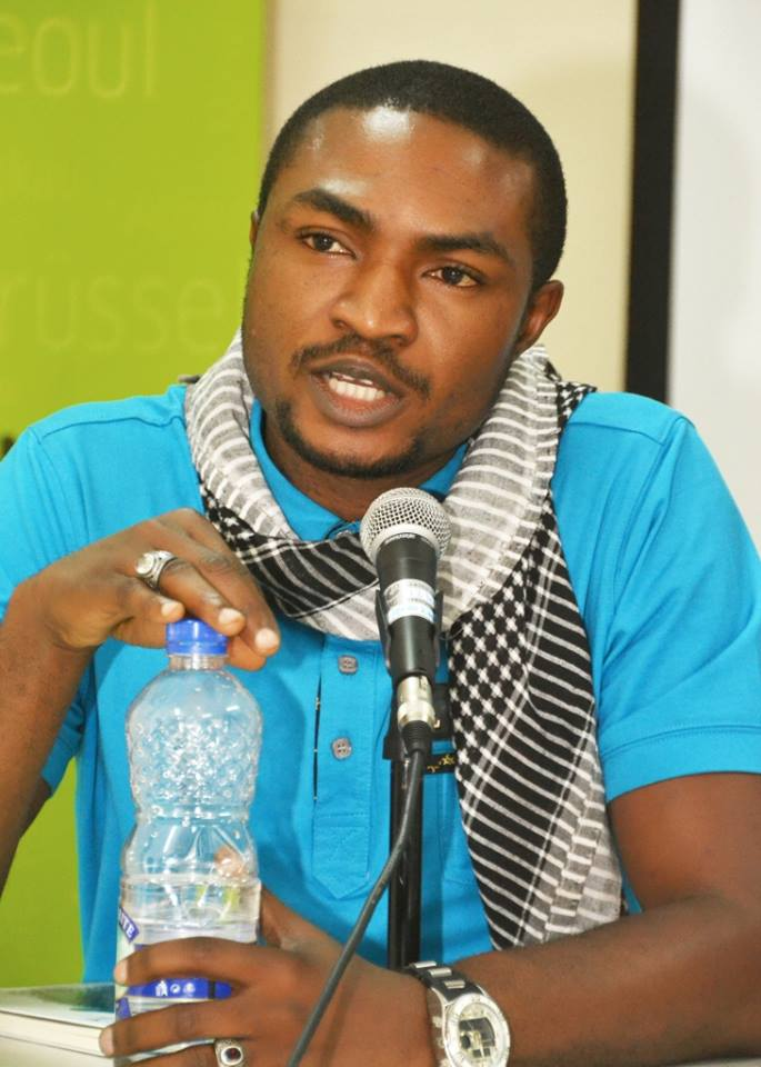 Photo of Abubakar Adam Ibrahim